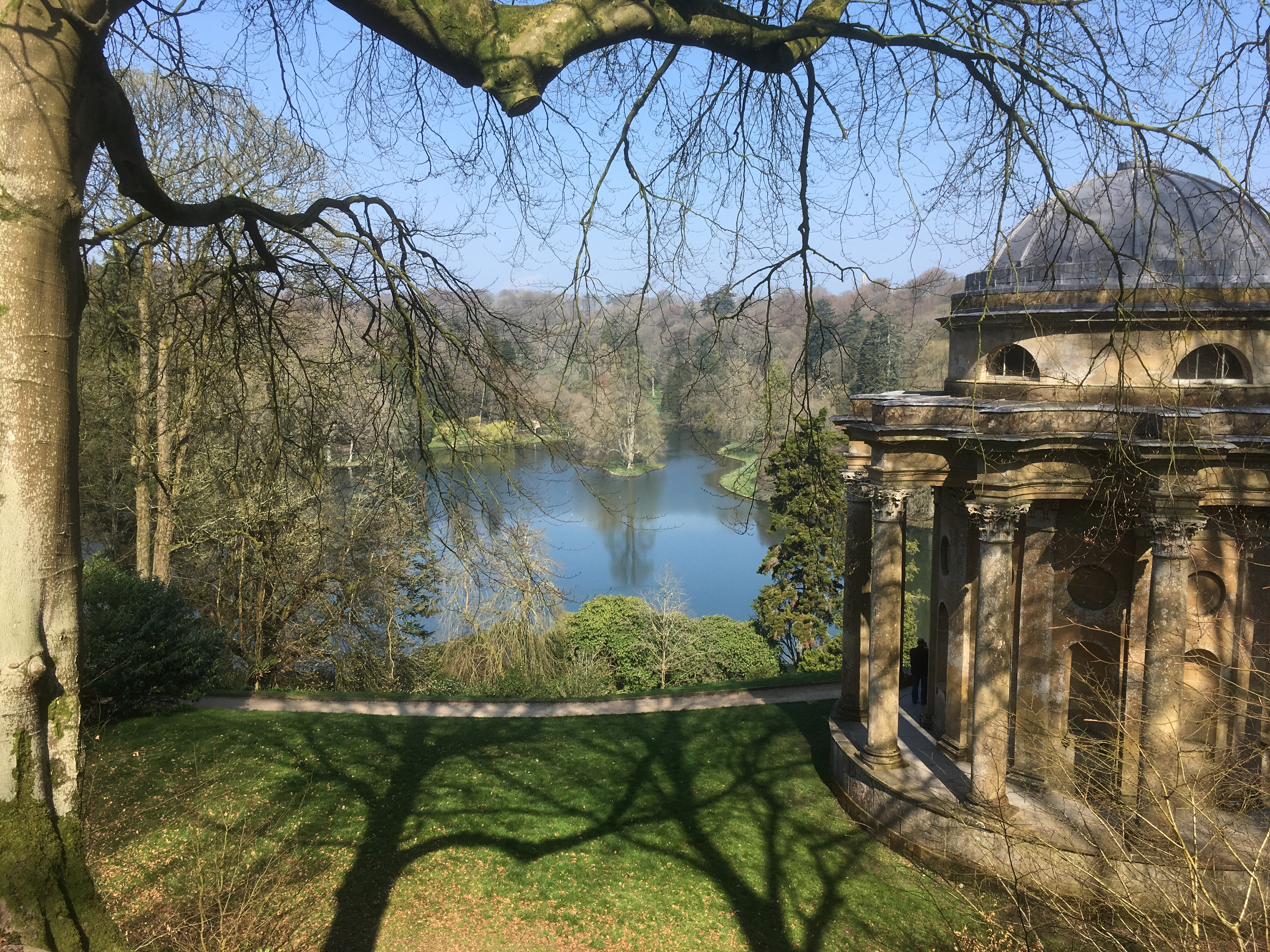 The Garden Lake at Stourhead viewed from the south. The Apollo Temple, built in 1765 by Henry Flitcroft is visible on the right-hand side of the picture.